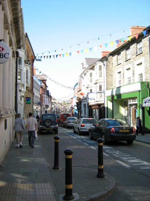 Picture of the high street in Cardigan, Ceredigion, Wales.